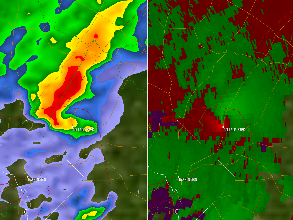 A Doppler weather radar image of an F3 tornado over College Park, Maryland on 2001-09-24. The left half of the screen is the base reflectivity image of the storm cell and the right half is the base velocity image of the storm cell. This tornado was responsible for the deaths of two people around the time of this image.